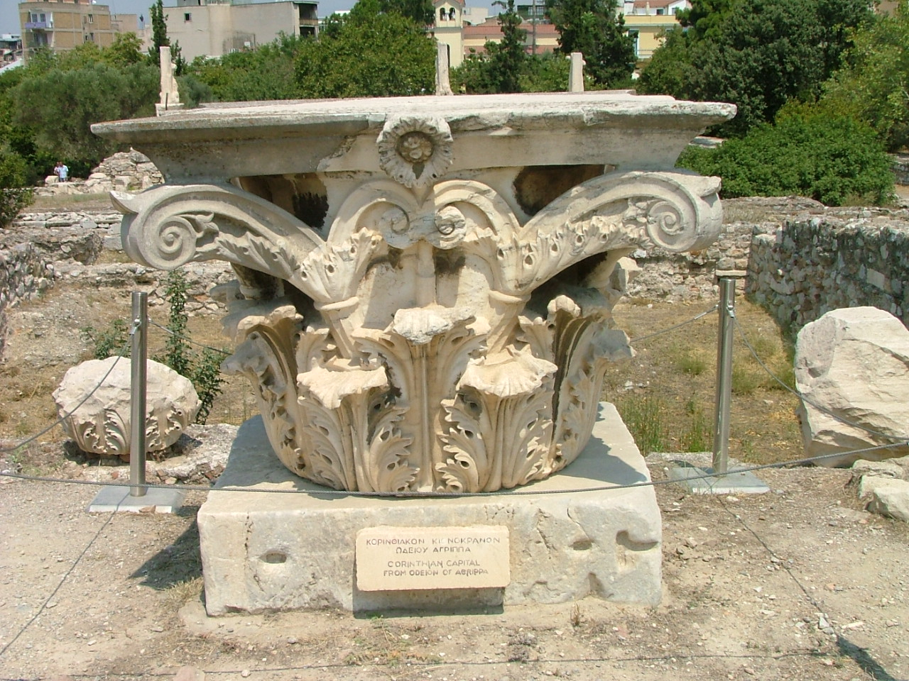 Corynthian capital from the Odeon of Agrippa (built in 14 BC by Marcus Vipsanius Agrippa) in the Ancient Agora of Athens.